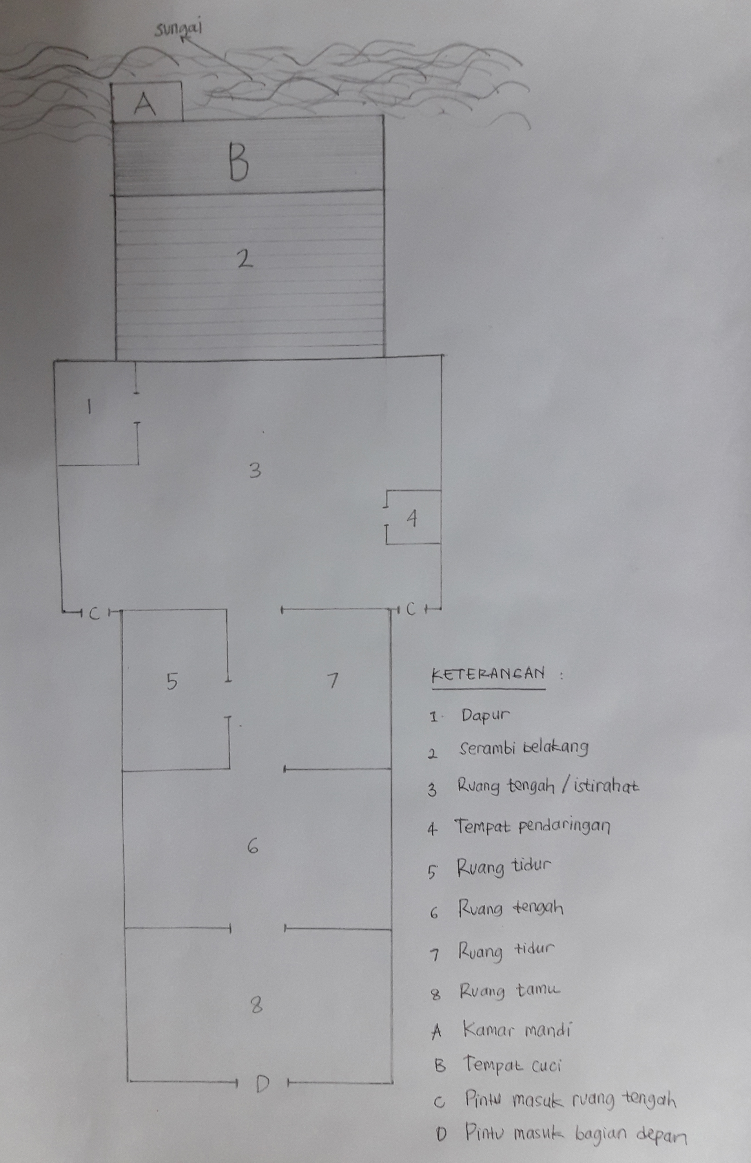 Tata ruang rumah Betawi Pesisir di Marunda